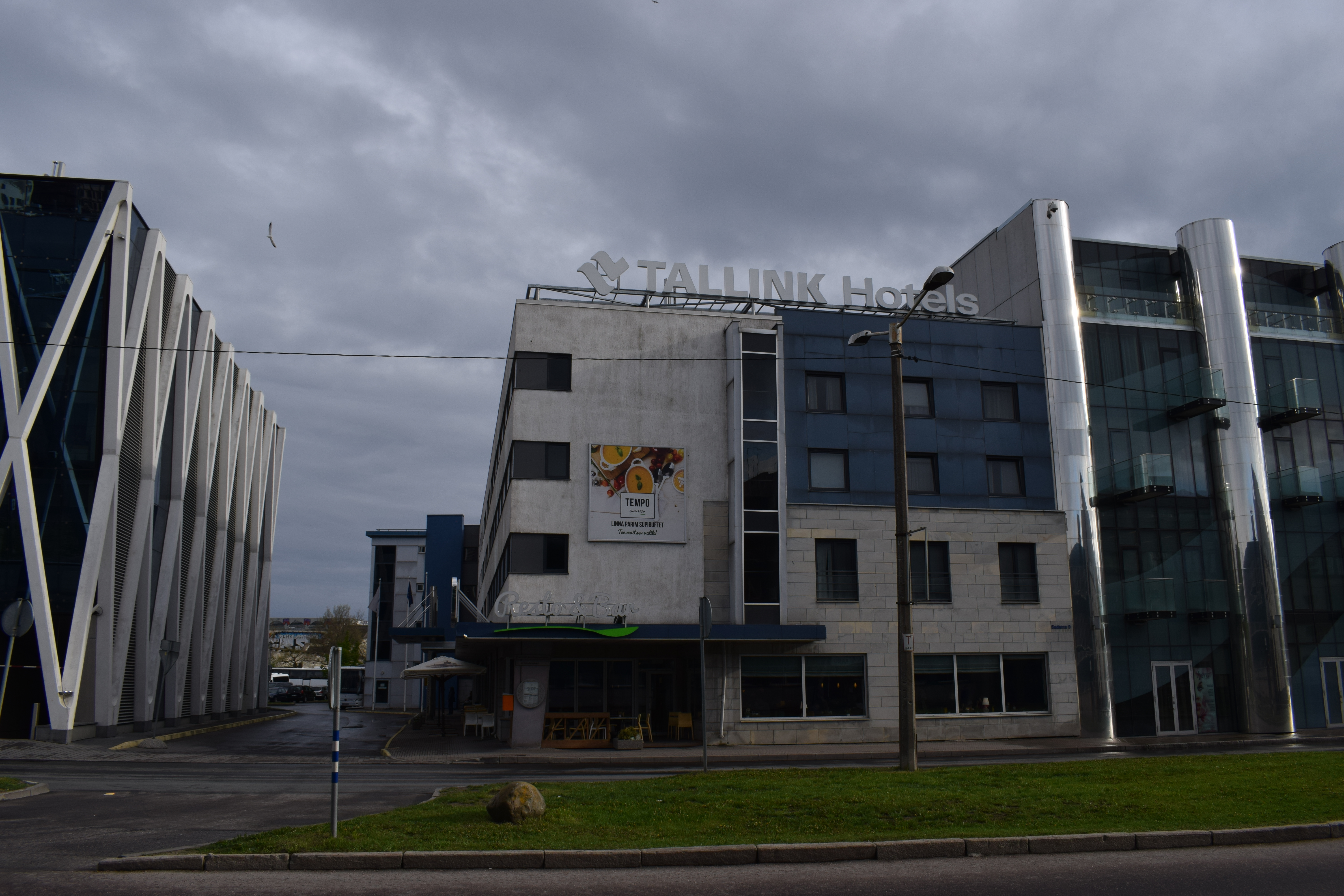 Tallink Express Hotel